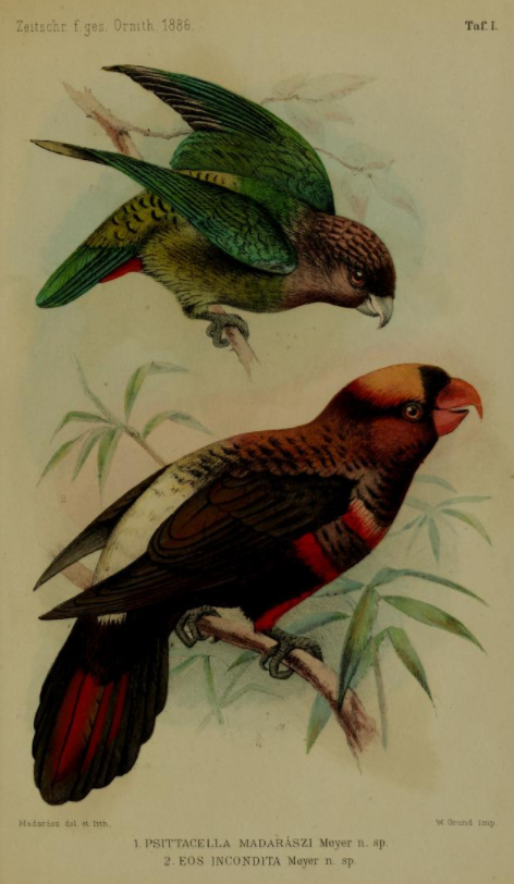 Psittacella madaraszi Pseudeos fuscata = Eos fuscata